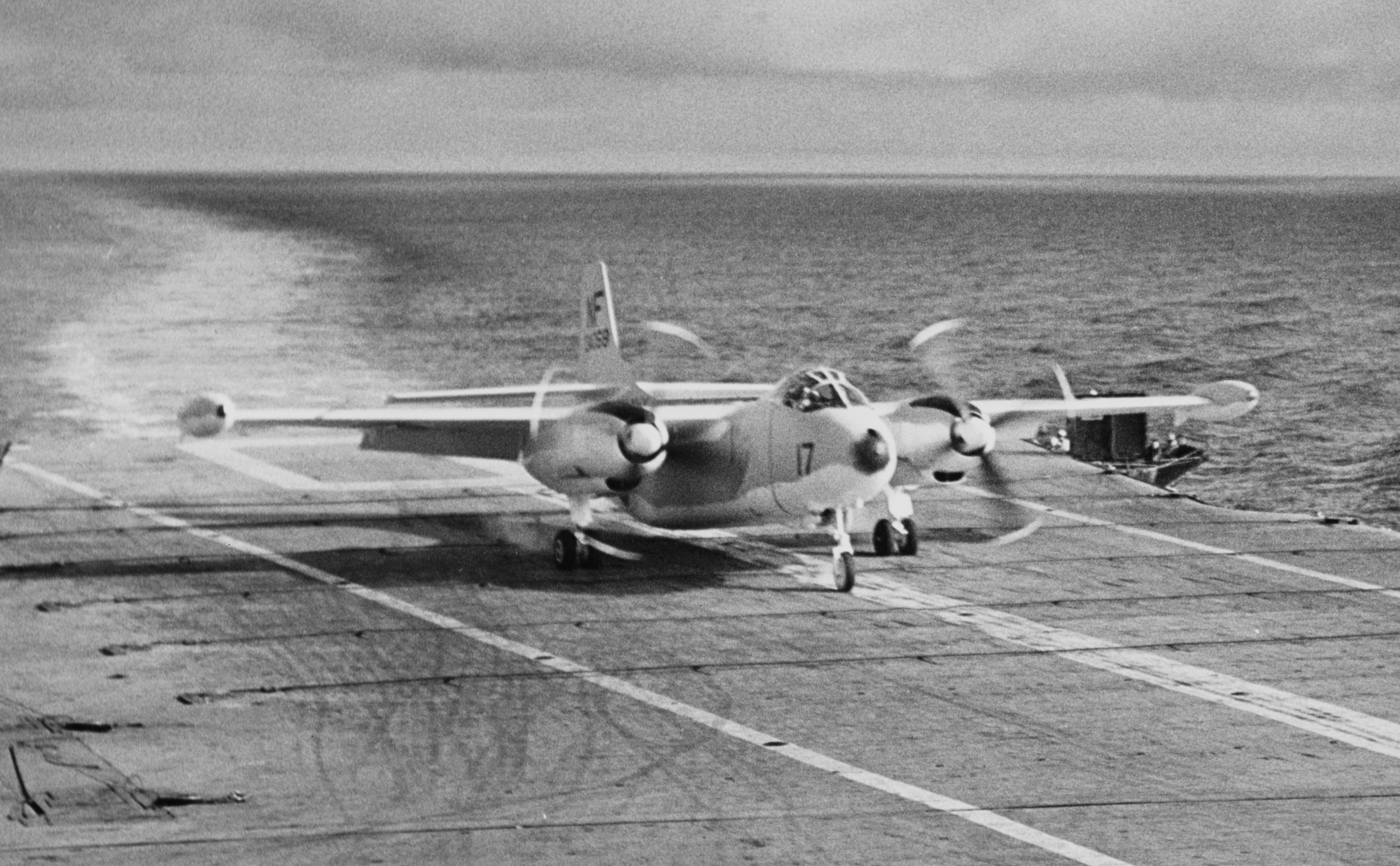 A U.S. Navy North American AJ-2 Savage (BuNo 134069) of Heavy Attack Squadron 6 (VAH-6) Det K. "Fleurs" landing on the aircraft carrier USS Yorktown (CVA-10) on 6 December 1955. VAH-6 Det.K was assigned to Air Task Group 4 (ATG-4) aboard the Yorktown for a deployment to the Western Pacific from 19 March to 13 September 1956.